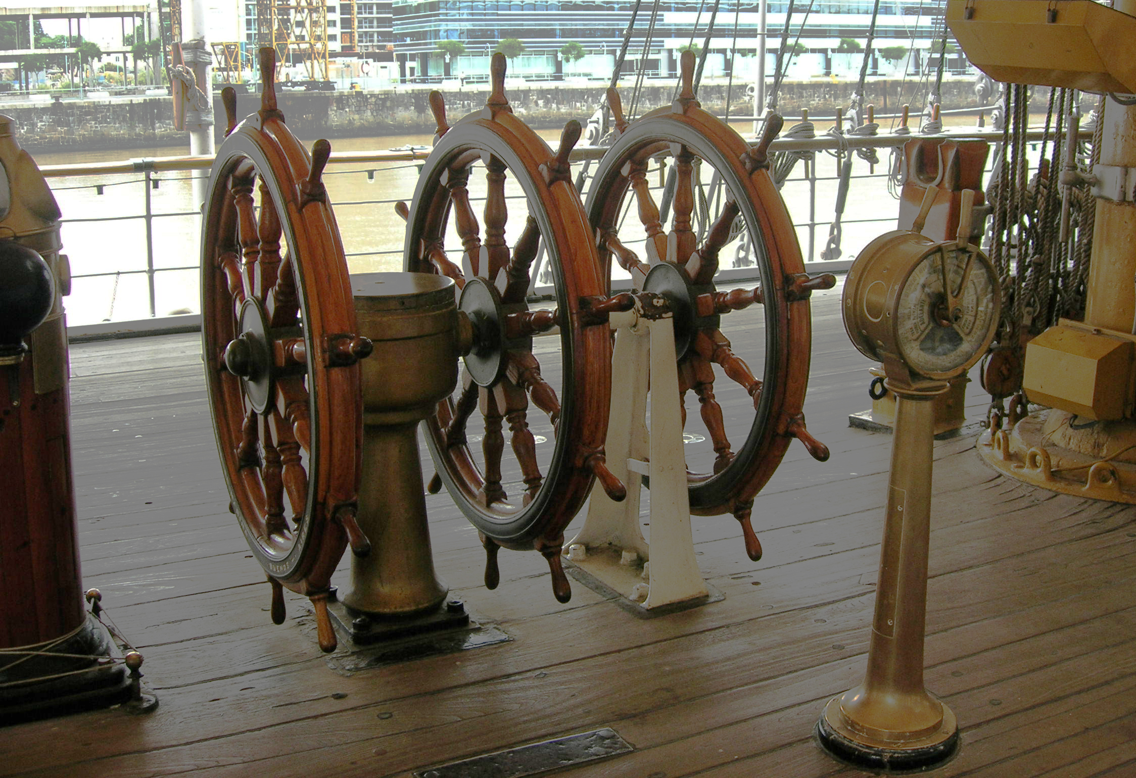 Description = Barre à roue de la frégate musée Presidente Sarmiento (former sail training ship of the Navy of Argentina) Source =Photo taken by Remi Jouan Date =Avril 2006 Author =Remi JouanÄ